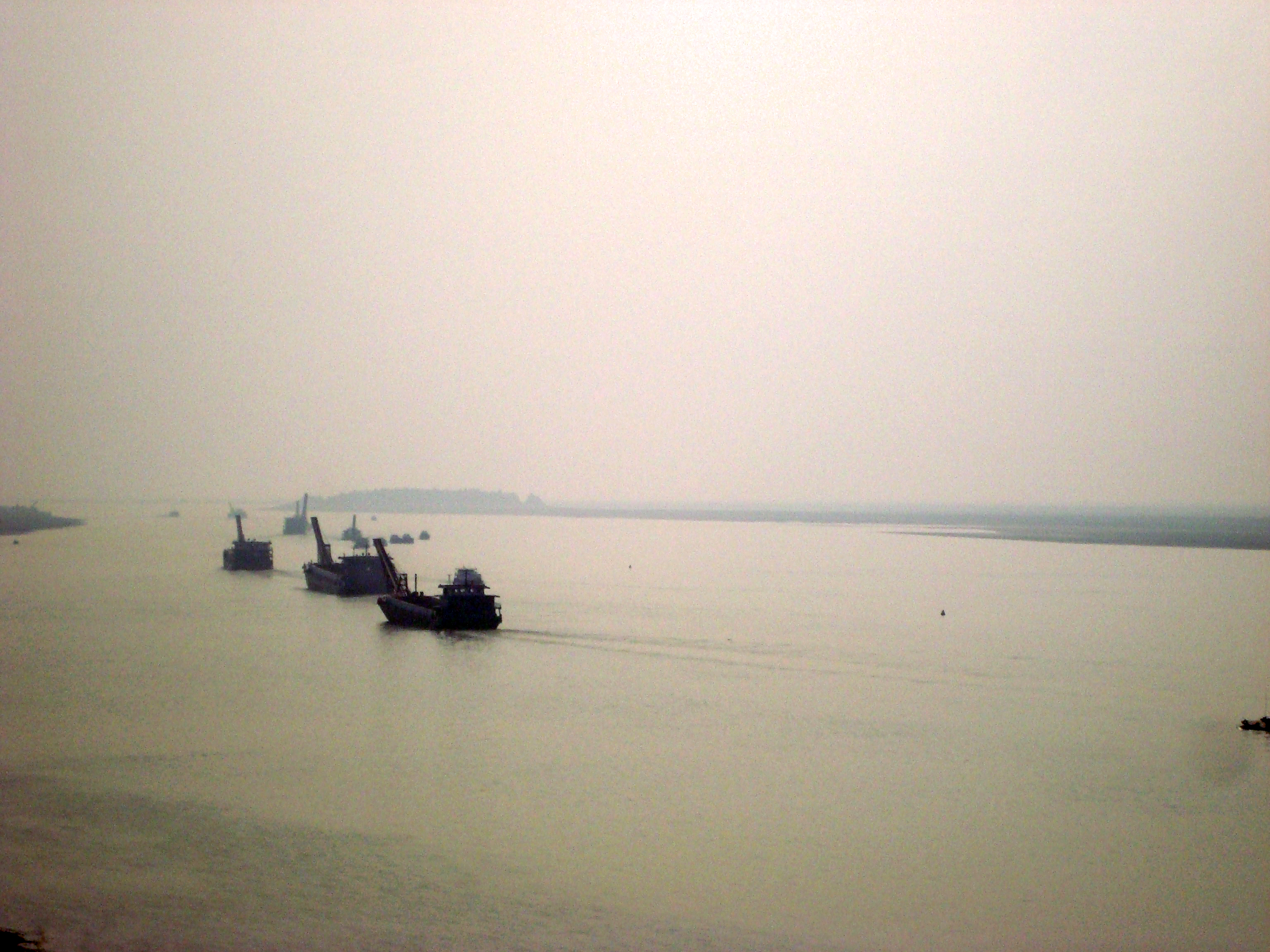 Sea and Sky Together (Location inspired famous poem in Chinese)